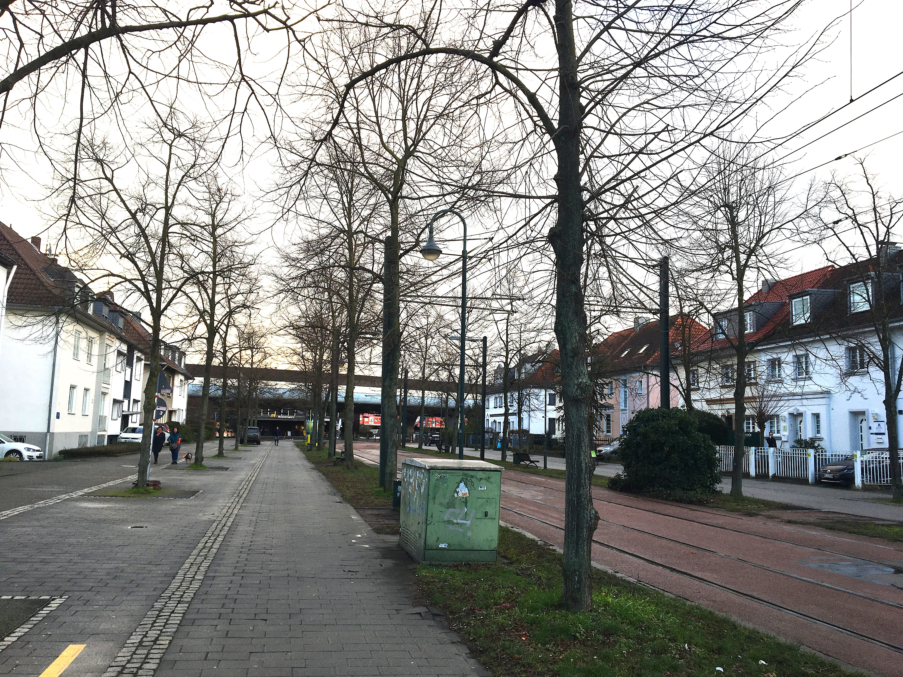 The double alley of the European linden protected by law on the "Heubesstrasse" street in Düsseldorf (Benrath) under the number AL-D-0086.